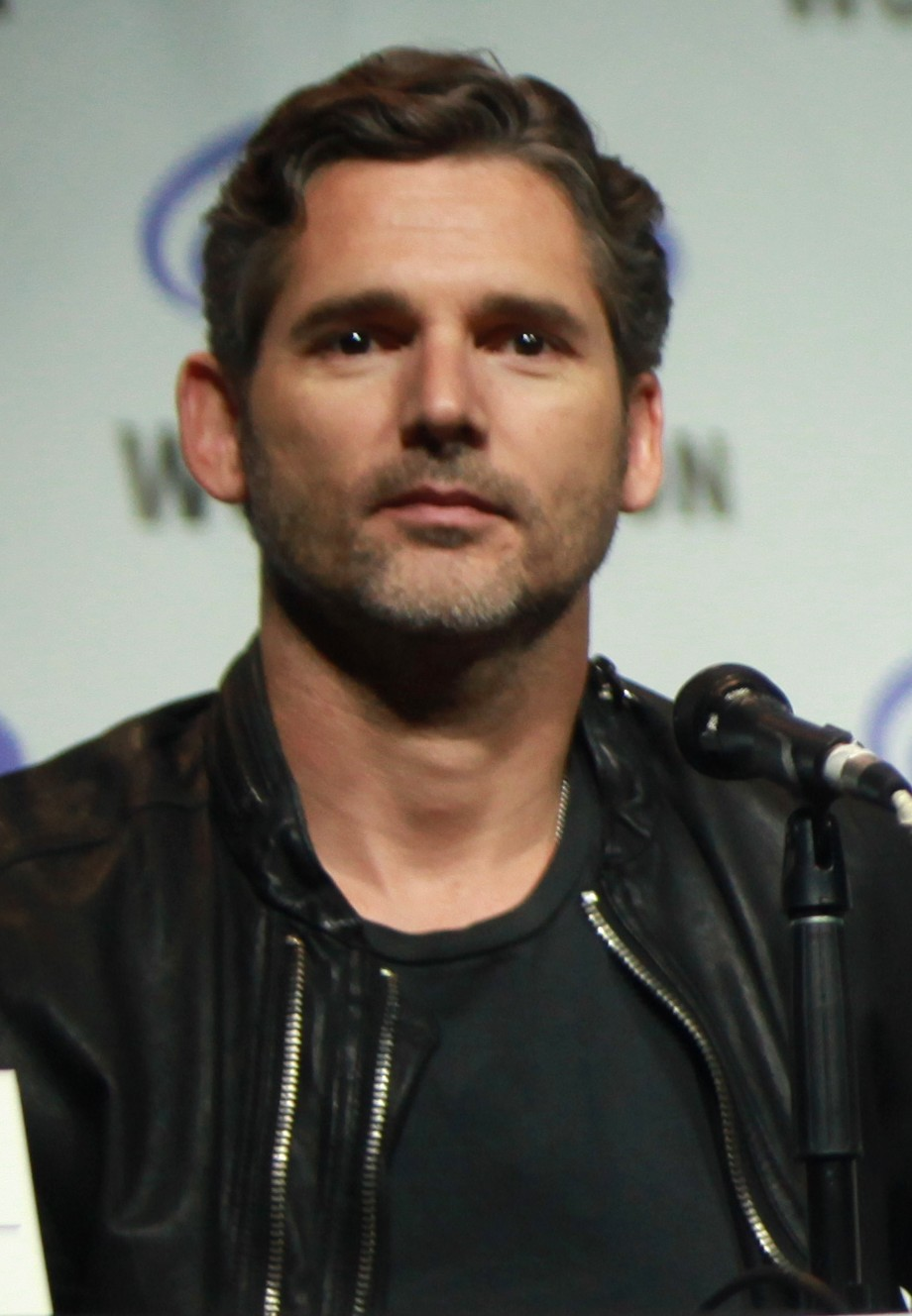 Eric Bana, Edgar Ramirez, Olivia Munn and Joel McHale speaking at the 2014 WonderCon, for "Deliver Us from Evil", at the Anaheim Convention Center in Anaheim, California. Photo by Gage Skidmore, taken on April 19, 2014